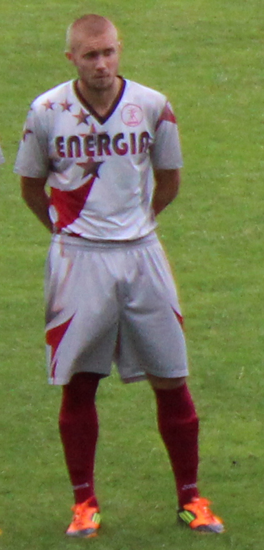 Vasyl Chornopiskiy